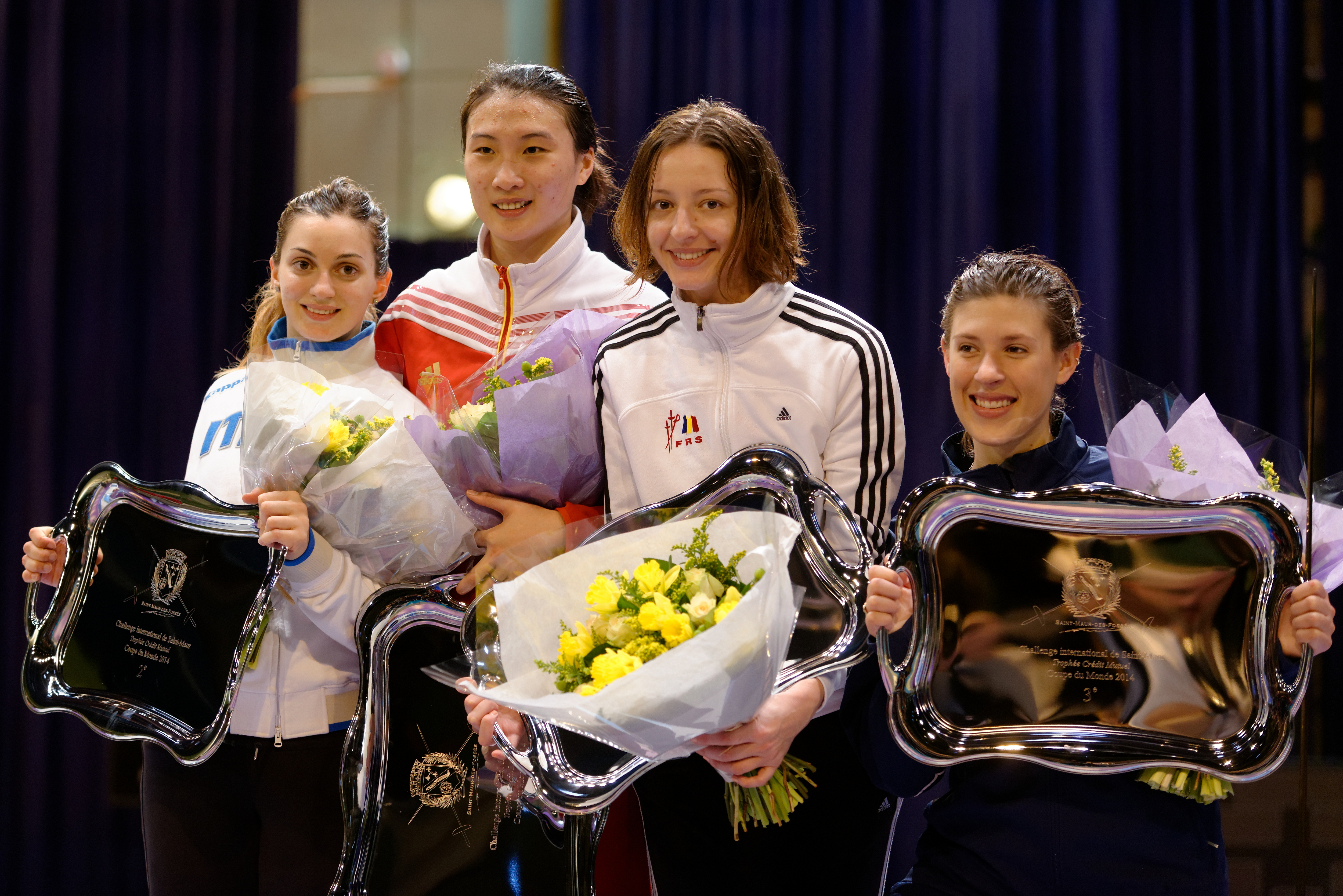 From left to right, Italy's Rossella Fiamingo, China's Xu Anqi, Romania's Ana Maria Brânză, and the United States' Kelley Hurley stand on the podium at the 2014 Challenge International de Saint-Maur, a women's épée World Cup event.